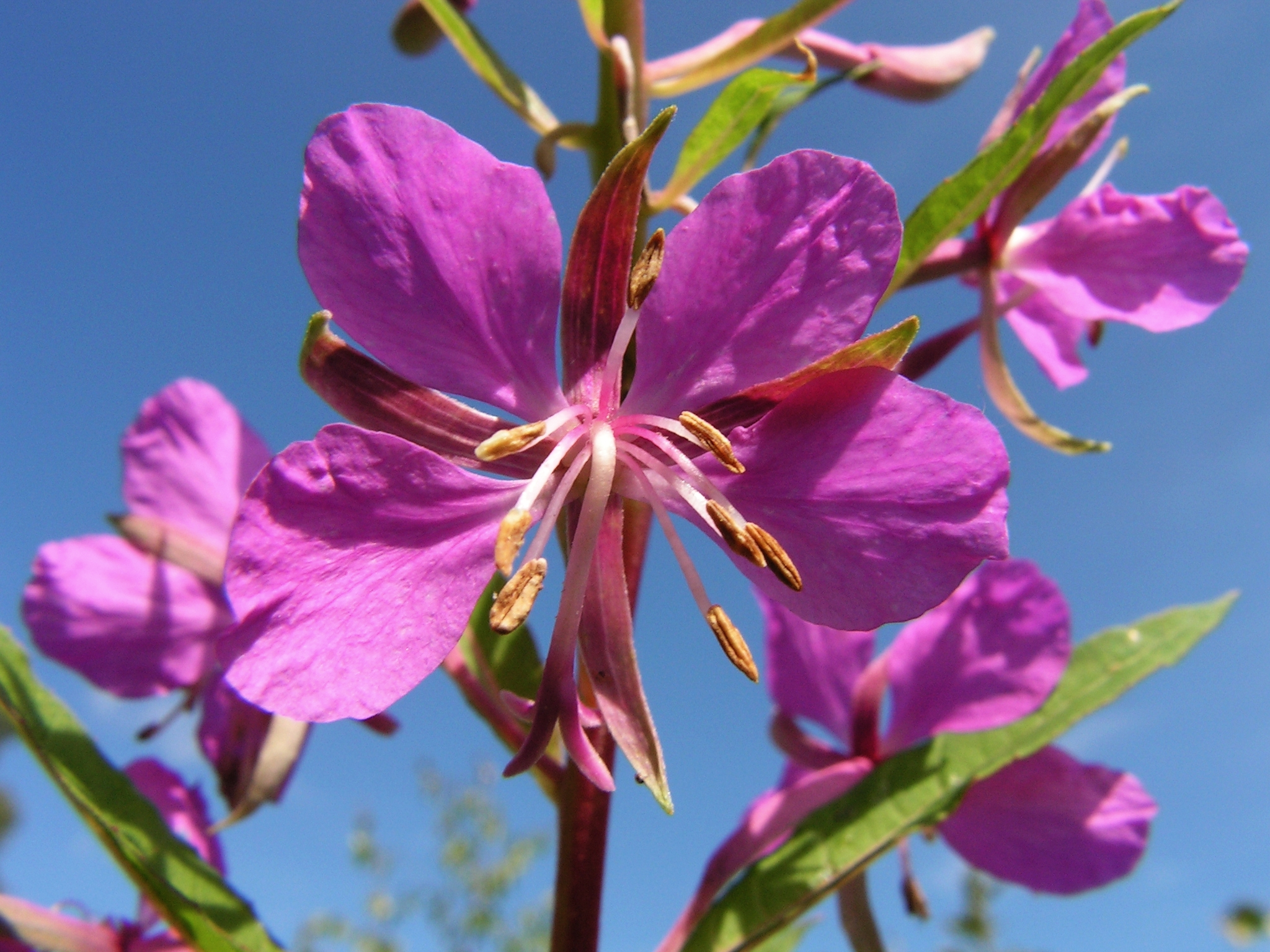 Chamerion angustifolium. Moscow region, Russia.